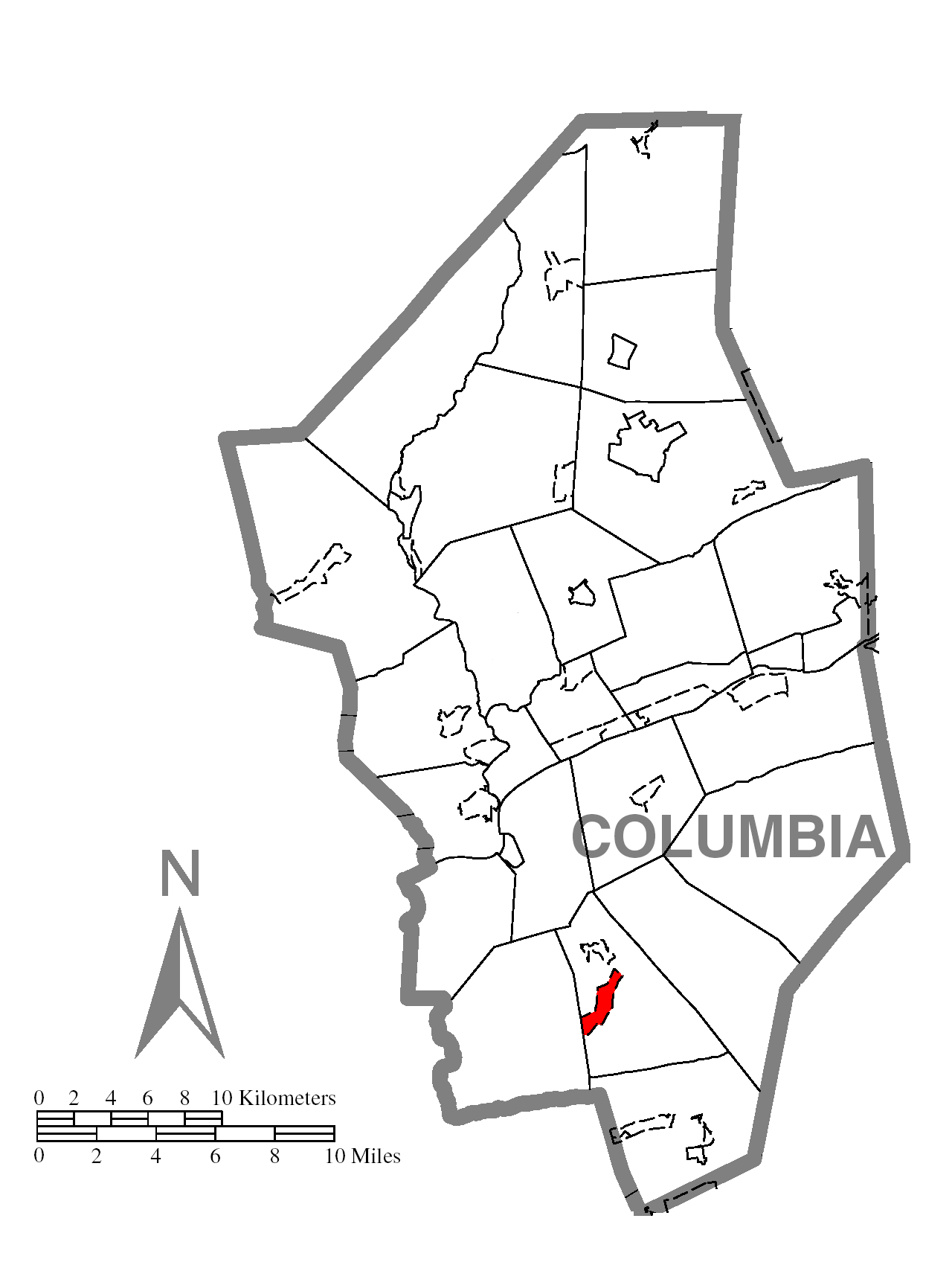 A map of Columbia County showing Numidia, Pennsylvania (alternate) highlighted on the map.